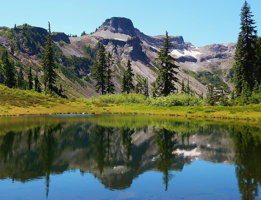 Table Mountain refected in a pond alongside the Mount Baker Highway near Austin Pass at Chain Lakes Trailhead.